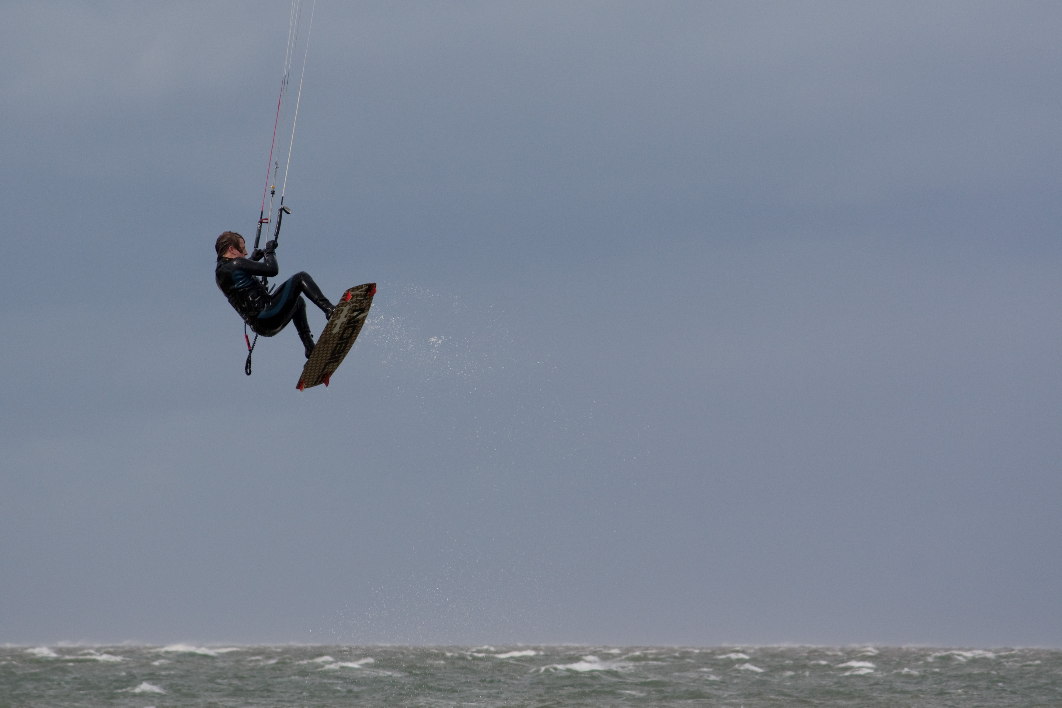 Kitesurfer at Big Air near Renesse/NL